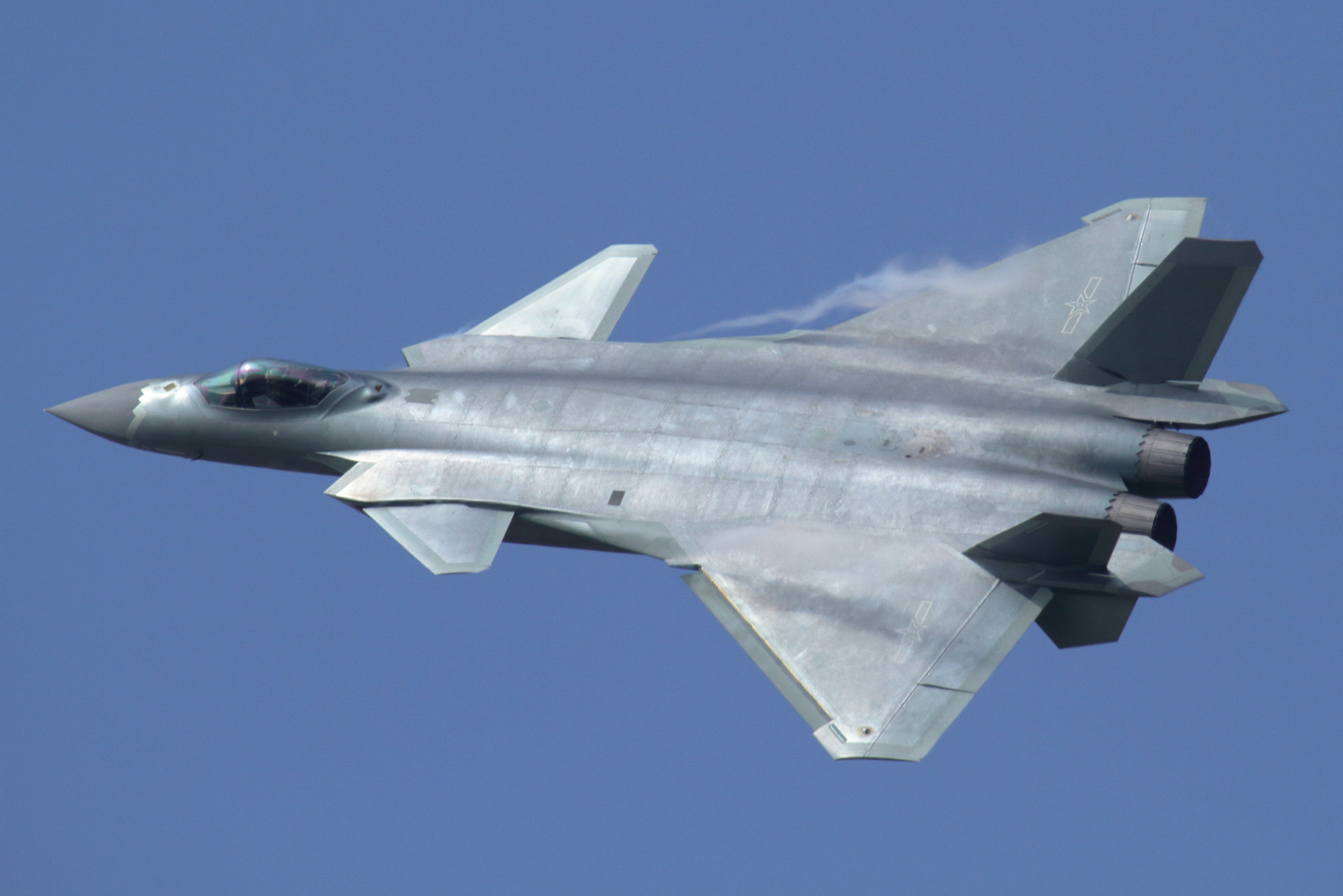 Flypast of the Chengdu J-20 during the opening of Airshow China in Zhuhai